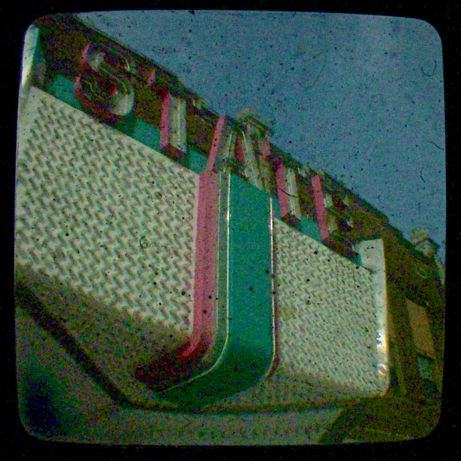 Wikipedia Loves Art at the Film Society of Lincoln Center This photo of State Theatre (Eau Claire, Wisconsin) supported by the Film Society of Lincoln Center was contributed under the team name "xenializ" as part of the Wikipedia Loves Art project in February 2009. The original photograph on Flickr was taken by xenia elizabeth—please add a comment to the original Flickr page whenever a use has been made on Wikipedia or another project. Project galleries on Flickr: this institution, this team